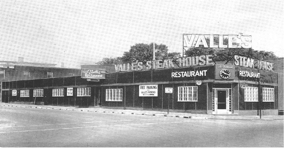 This is a scan of a postcard in my personal collection. The postcard is from the 1950s.